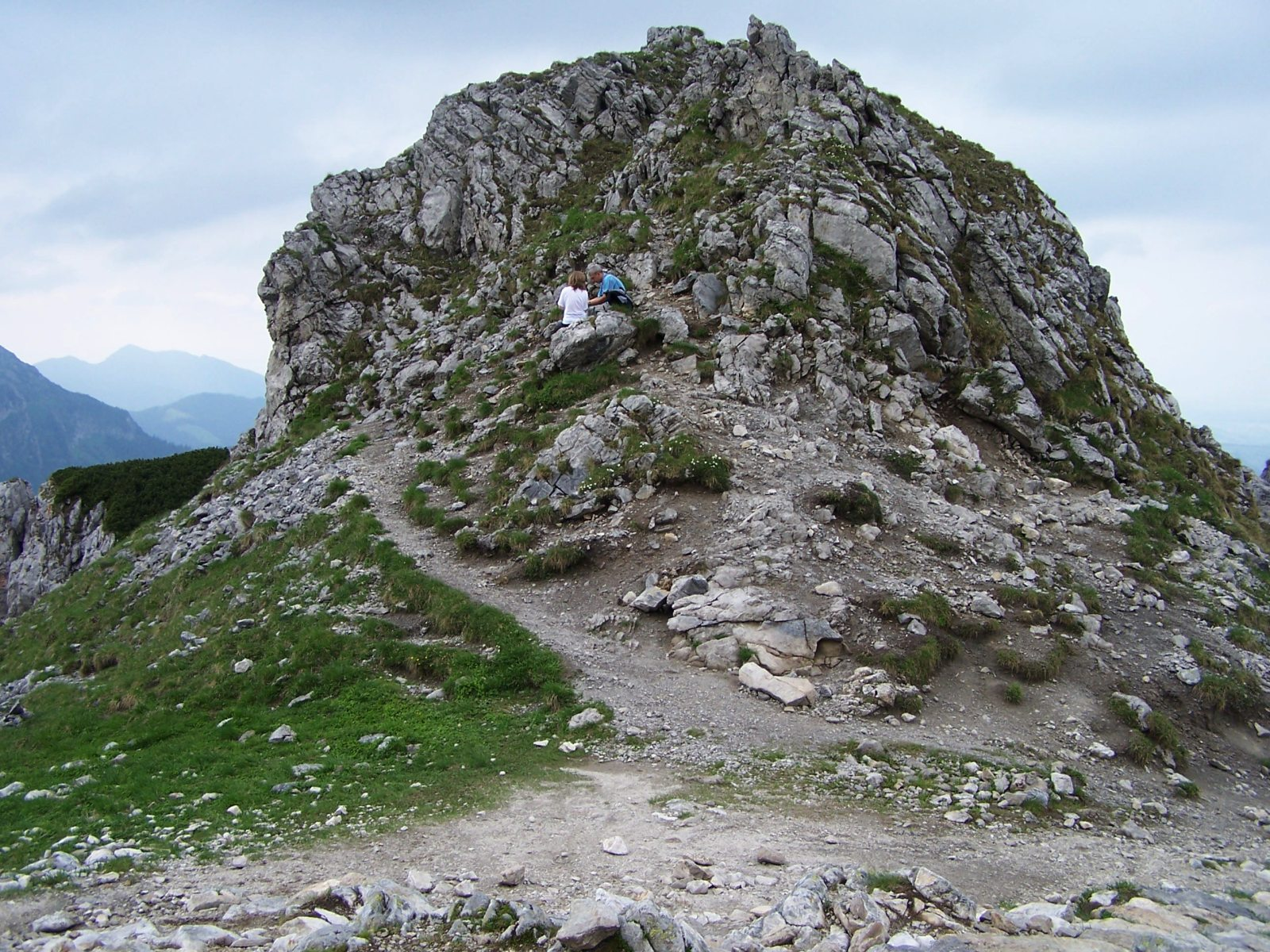 Chuda Turnia (West Tatra Mountains, Hala Upłaz)